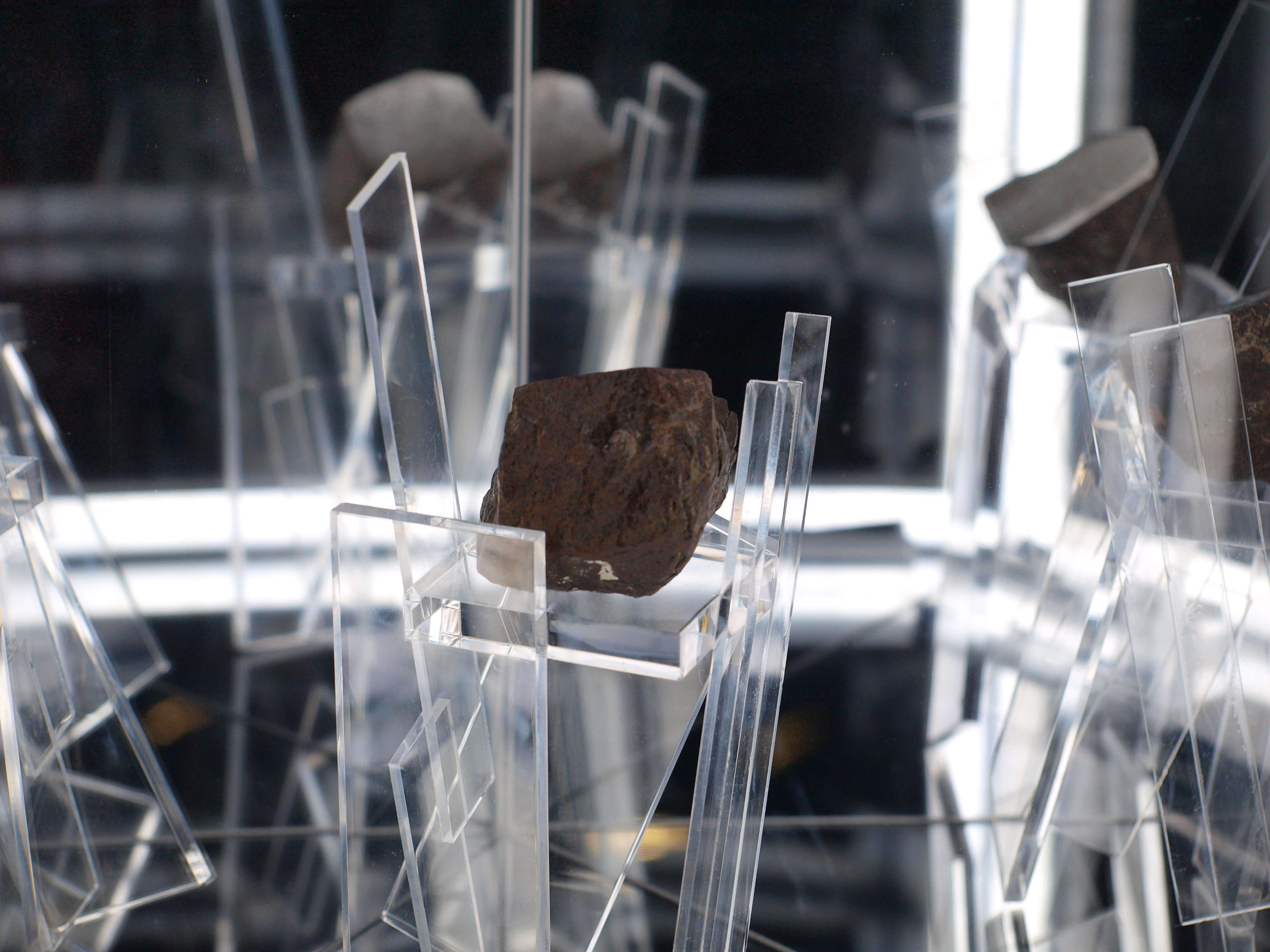 A rock from outer space at Ontario Science Centre. Its not a meteorite.